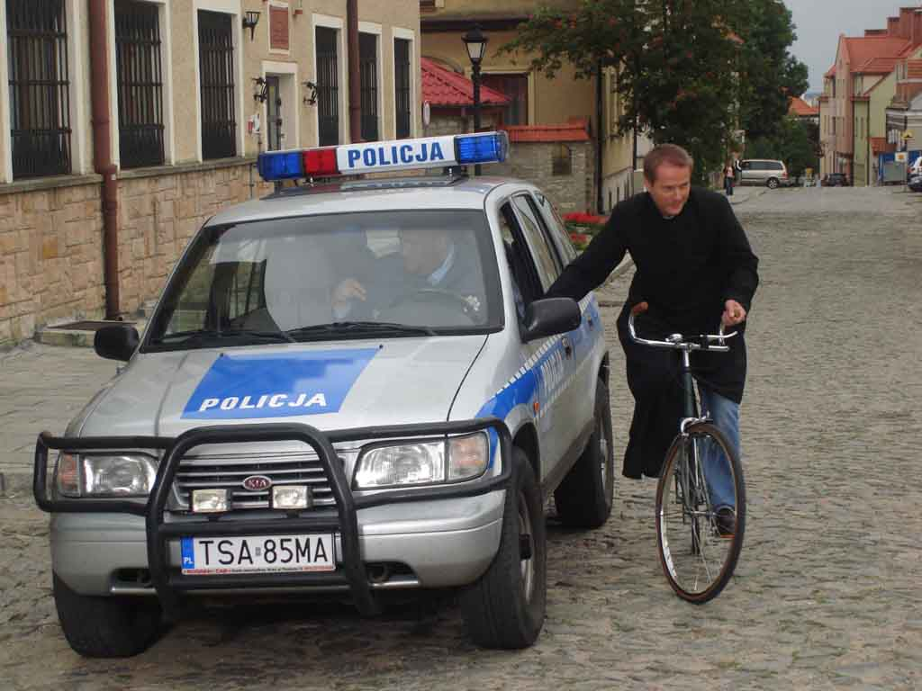 KIA car of the Polish Police, in a new livery (from 2008)